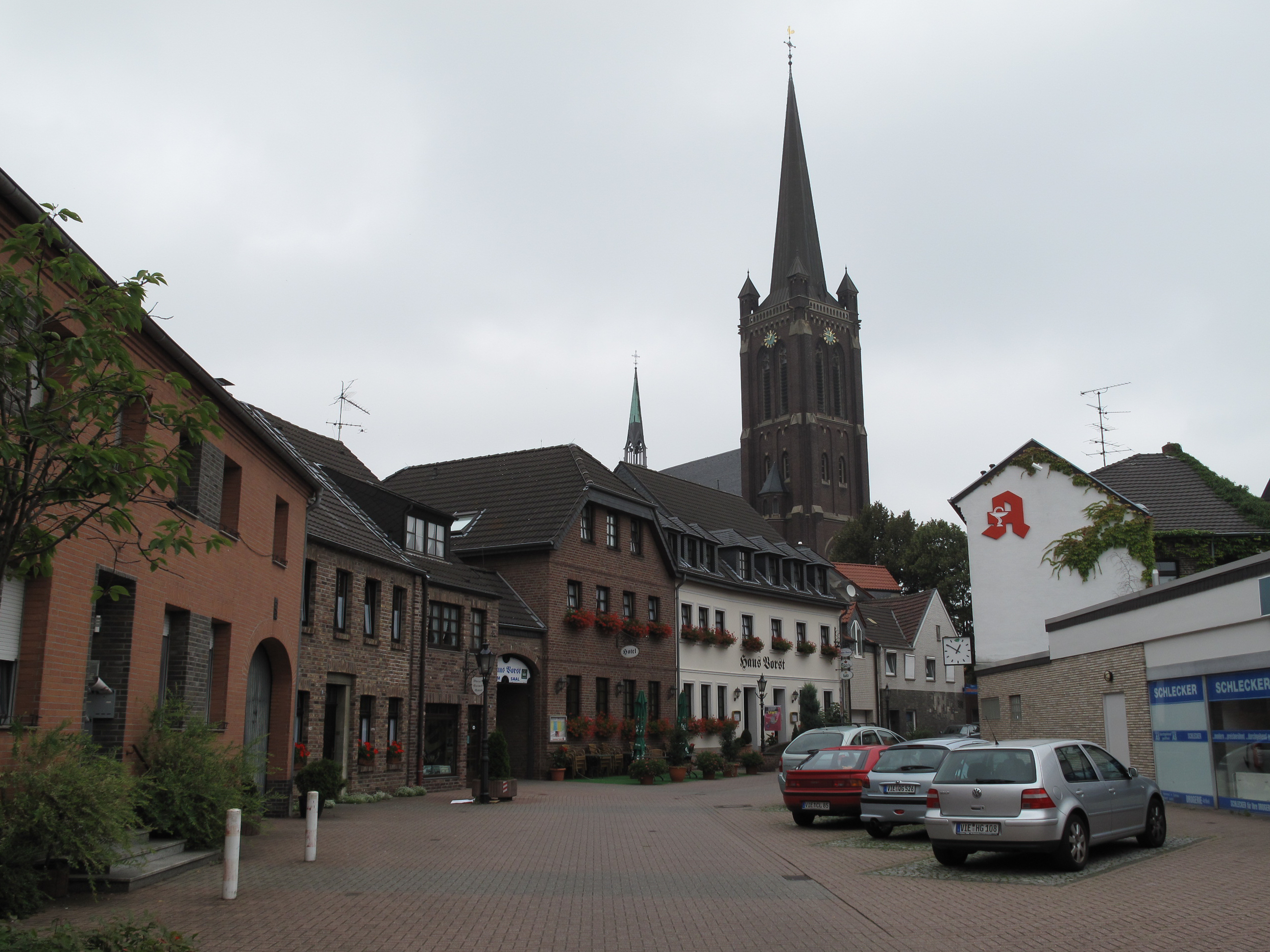 Vorst, street and church